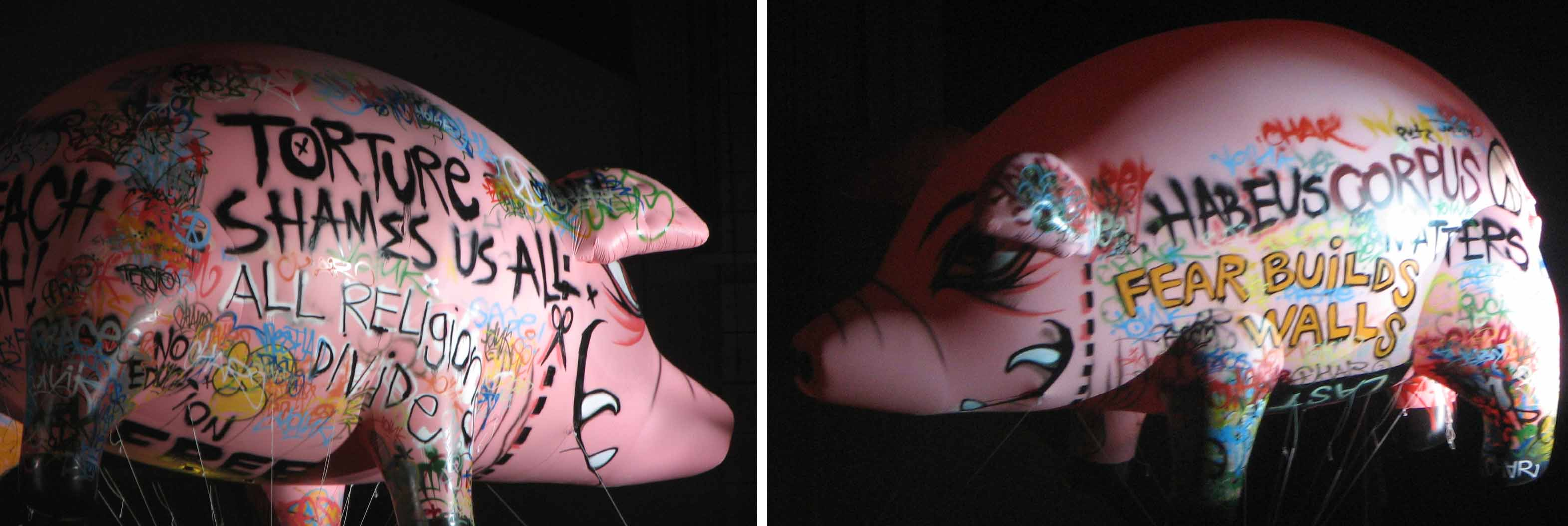 Image of the pig used for the Roger Waters show at the Hollywood Bowl on June 13, 2007